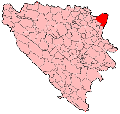 Location of Bijeljina municipality in Bosnia and Herzegovina.